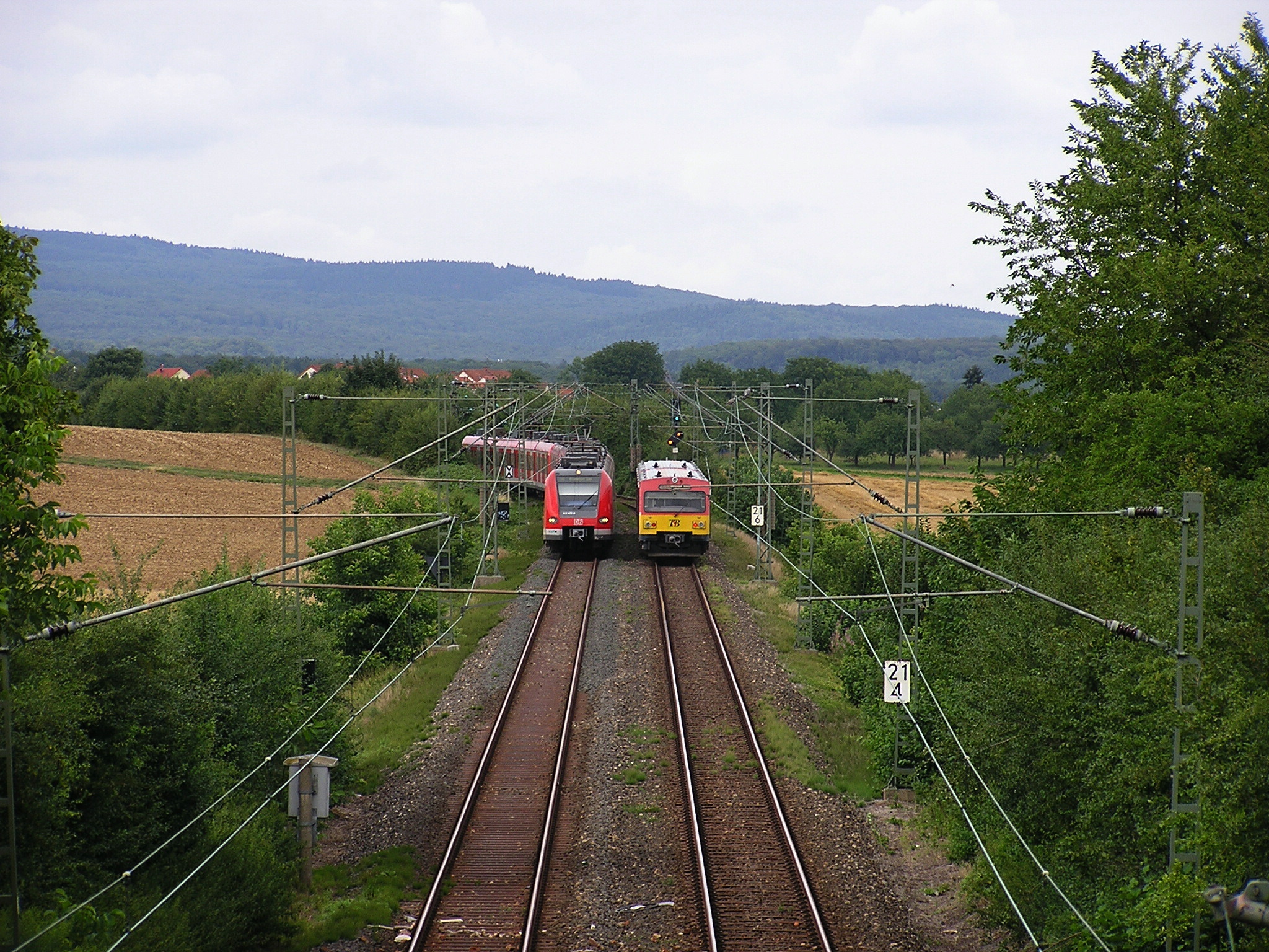 VT 2E of the Taunusbahn on the way from Bad Homburg to Seulberg meets ET 423.